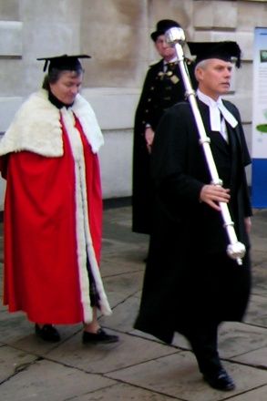 The University Officers in charge of a degree ceremony at the University of Cambridge.